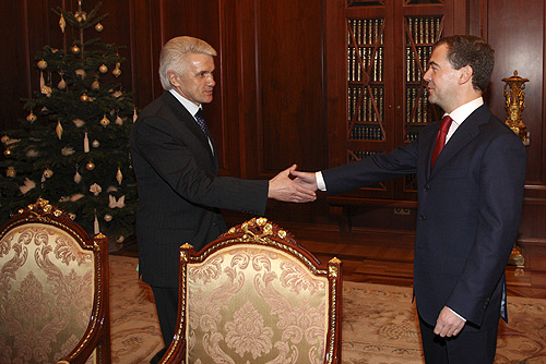 Chairman of the Verkhovna Rada (parliament of Ukraine) Volodymyr Lytvyn & President of Russia Dmitry Medvedev